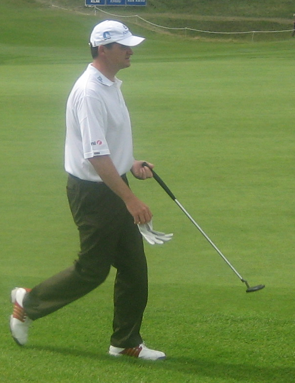 Paul Lawrie at the 2007 KLM Open.